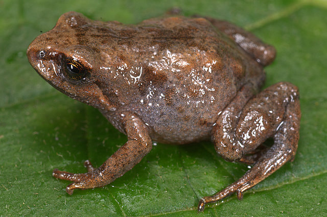 Bryophryne zonalis